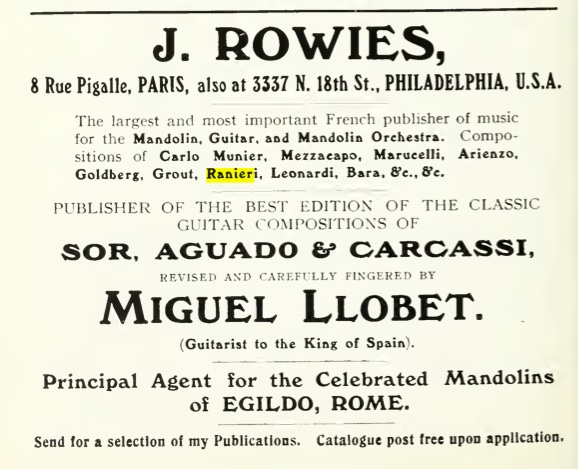 Advertisement for music publisher J. Rowies (Philadelphia, Pennsylvania) for mandolin sheet music. Artists include Carlo Munier, Mezzacapa, Marucelli, Arienzo, Goldberg, Grout, Ranieri, Leonardi, Bara, and Guitar music by Aguado, and Carcassi as played by Miguel Llobet (Guitarist to the King of Spain. Taken from the book The guitar and mandolin, Biographies of celebrated players and composers for these instruments by Philip J. Bone, published by Schott and Company, London, 1914.